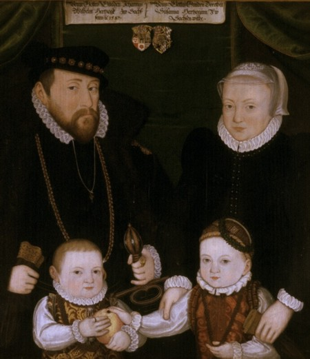 Johann Wilhelm, Duke of Saxe-Weimar, his wife Dorothea Susanne of Simmern and their two eldest children: Friedrich Wilhelm I, Duke of Saxe-Weimar and Sibylle Marie.